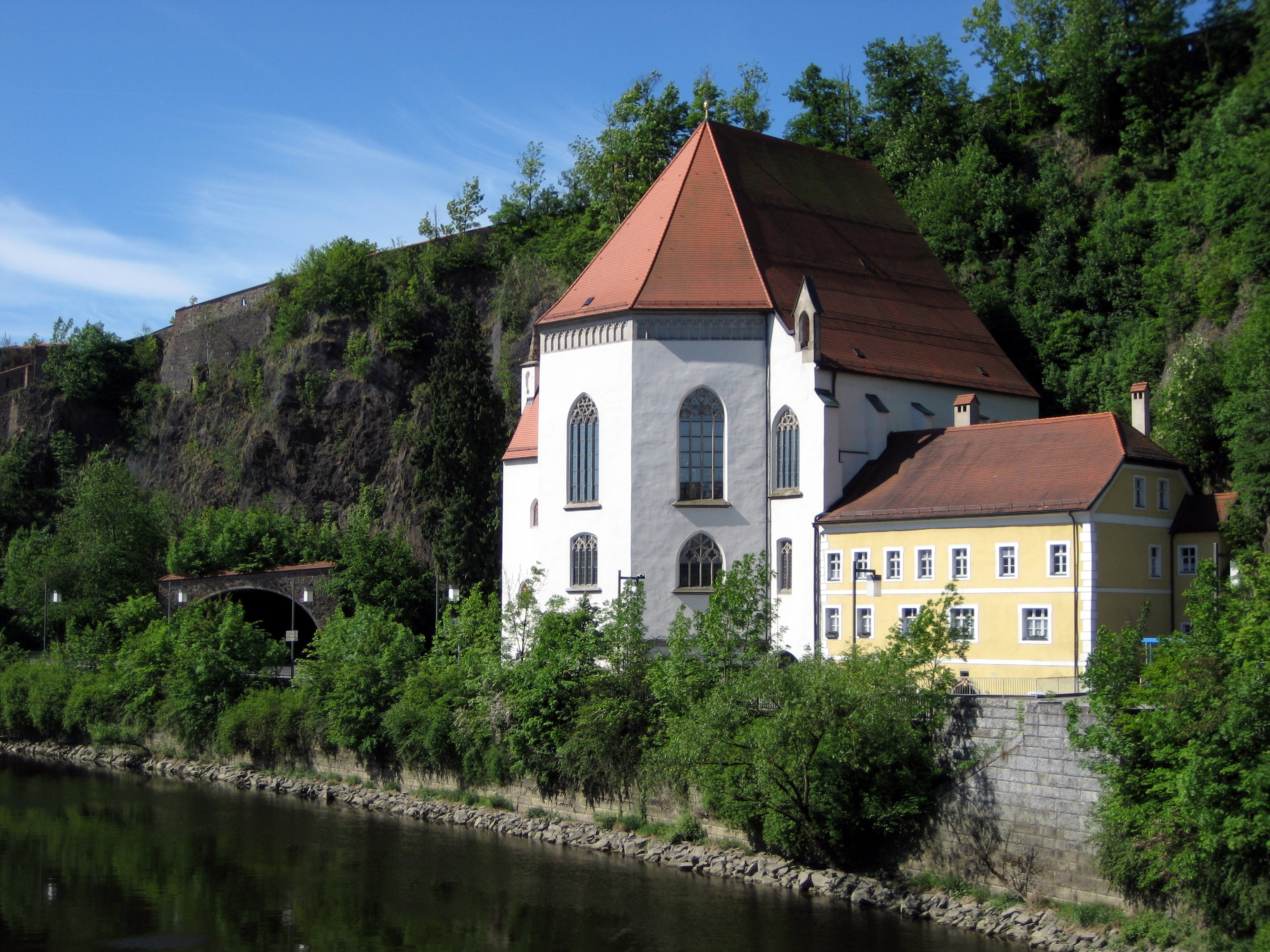 Passau, pilgrimage church St. Salvator This is a photograph of an architectural monument.